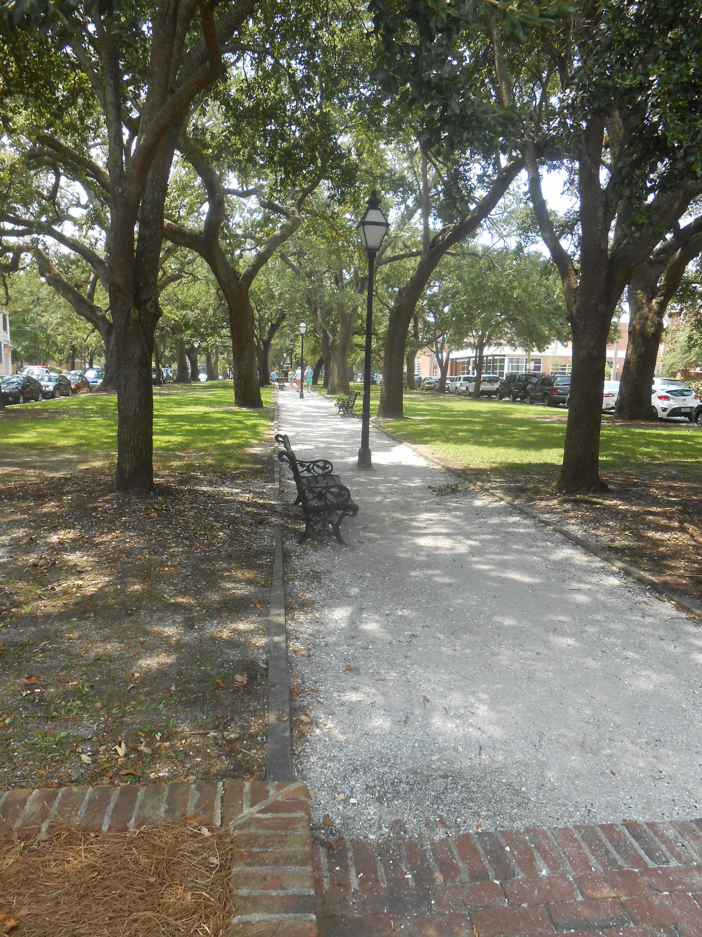 Wragg Mall, Charleston, South Carolina